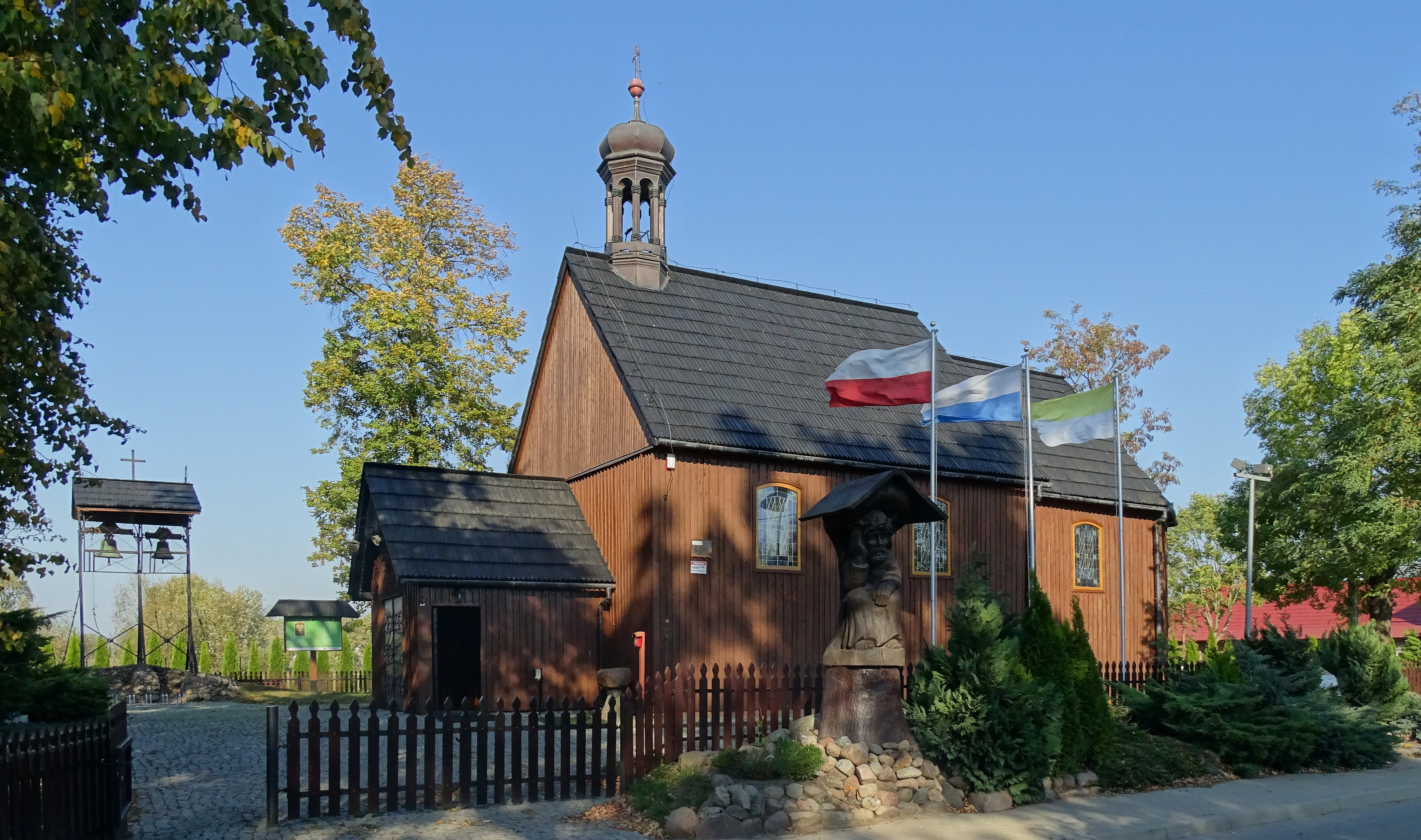 Węglewo, Poznań County, Greater Poland Voivodeship, in west-central Poland. Church of Catherine of Alexandria, built in the 17th century.